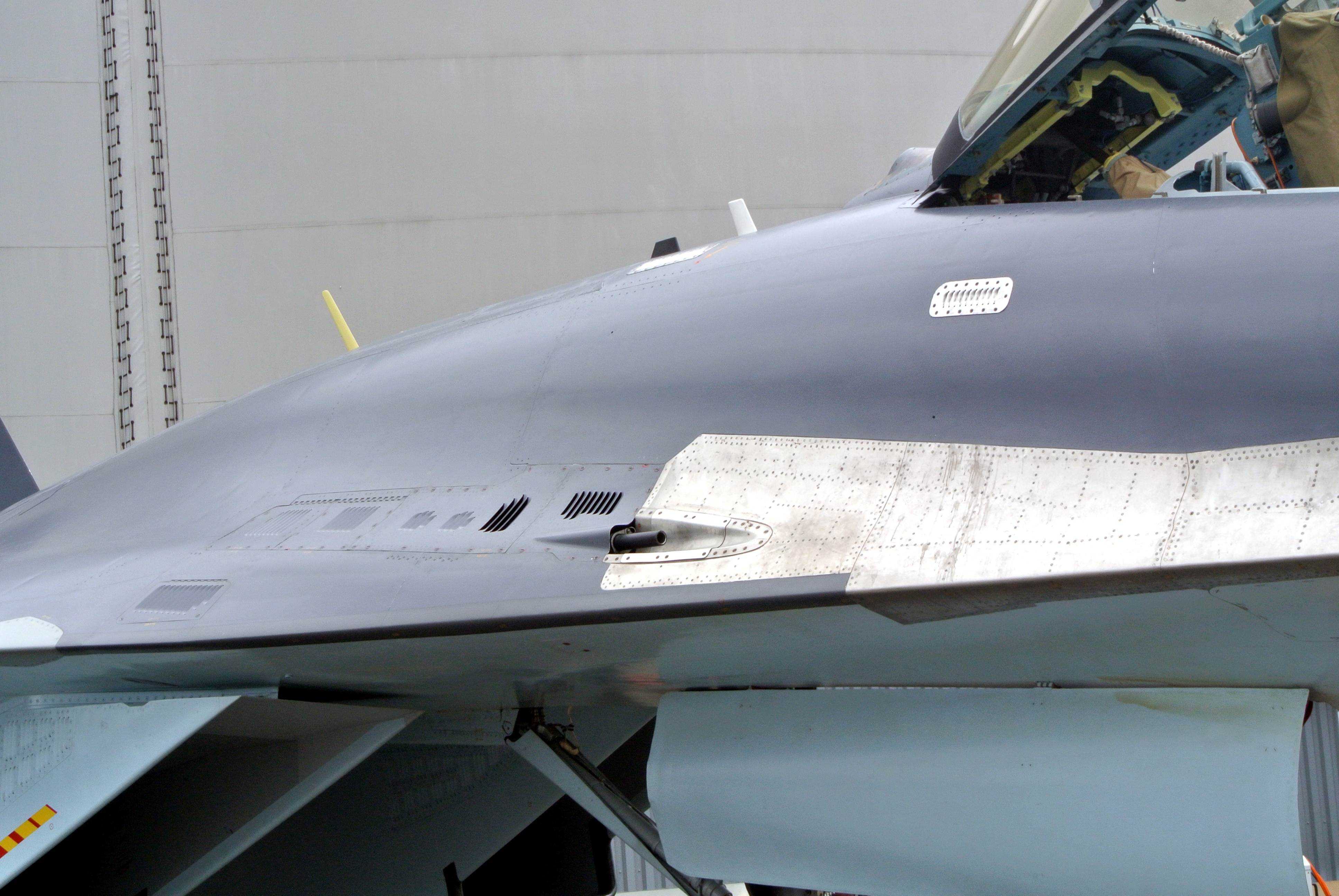 Su-35, zooming on the GSh-301 cannon during Paris Airshow 2013